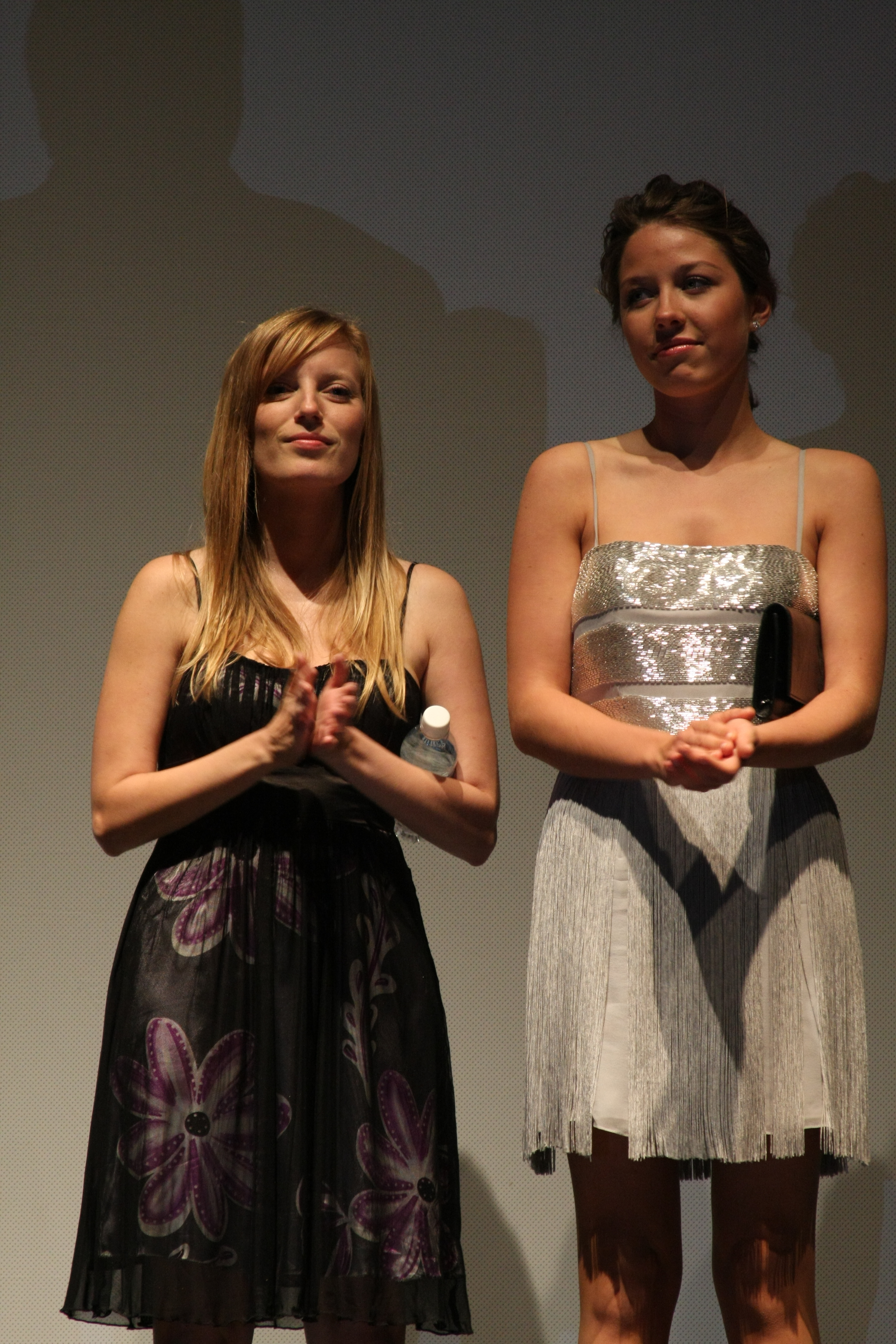 Sarah Polley and Clare Stone.